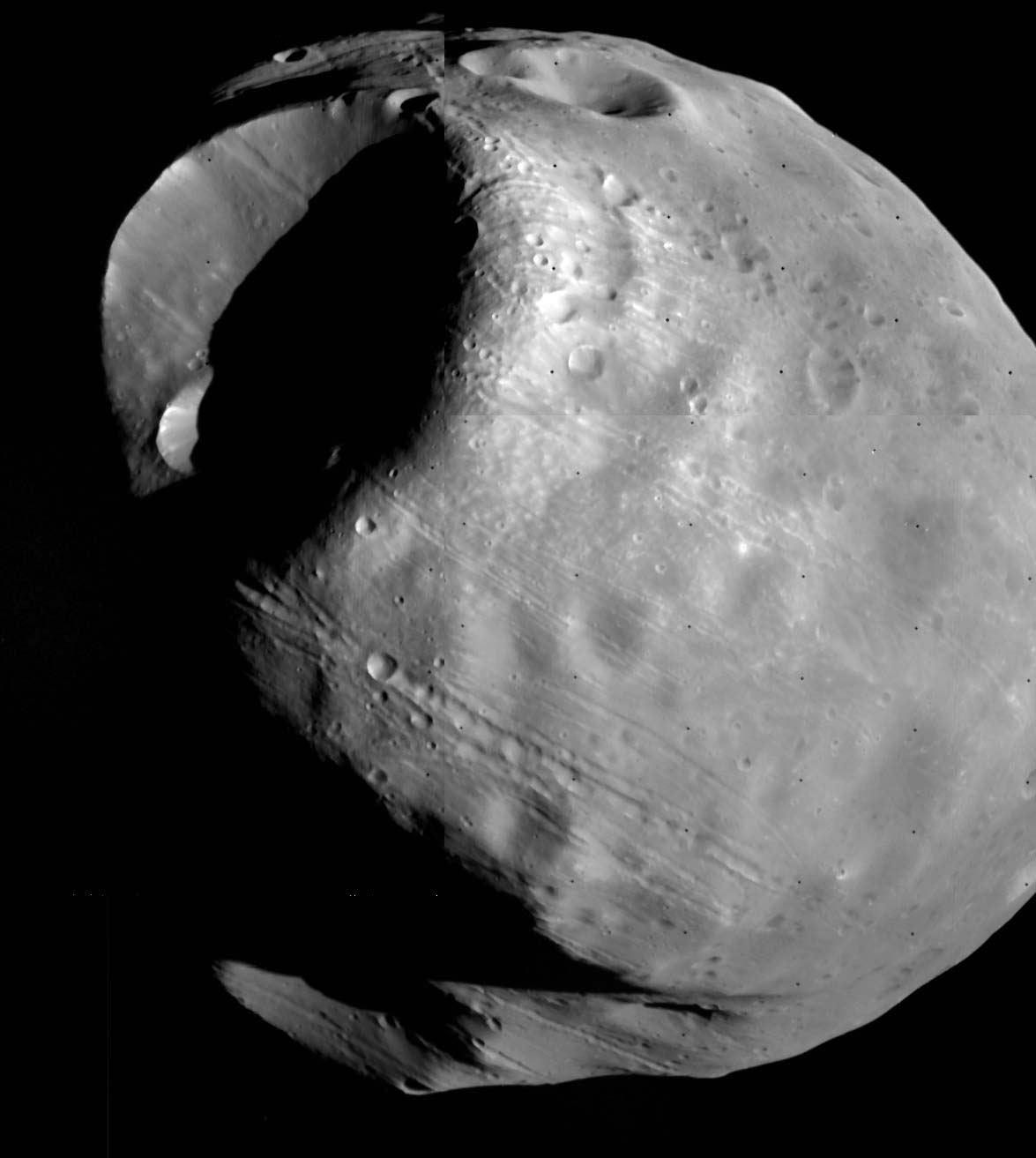 This image is a montage of three separate images taken by Viking 1 during one of its flybys of Phobos. The images were taken from ranges between 613 and 633 km on October 19, 1978. The large crater (mostly in darkness) on the upper left of the image is the crater Stickney.